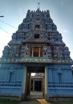 Rajagopura, Utrapatisvarar Temple, Tiruchhengattangudi, Nagapattinam District, Tamil Nadu, India